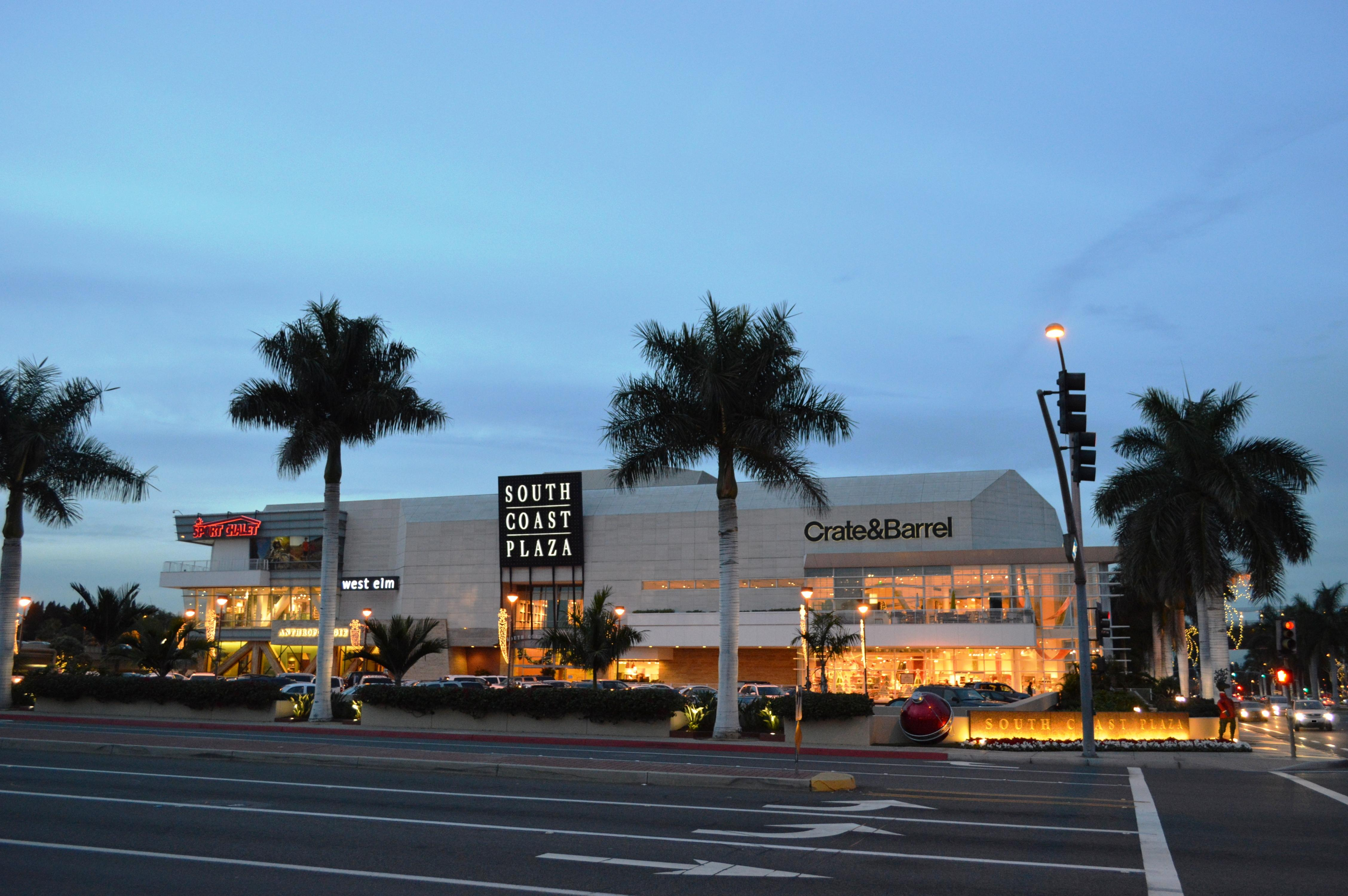 Mall section on the west side of Bear Street at South Coast Drive - South Coast Plaza in Costa Mesa, California, U.S.A. This section, now called Crate & Barrel Wing (or the West Wing), used to be called the Crystal Court. On the right side, you can see part of the Bridge of Gardens connecting this wing with the Nordstrom Wing.